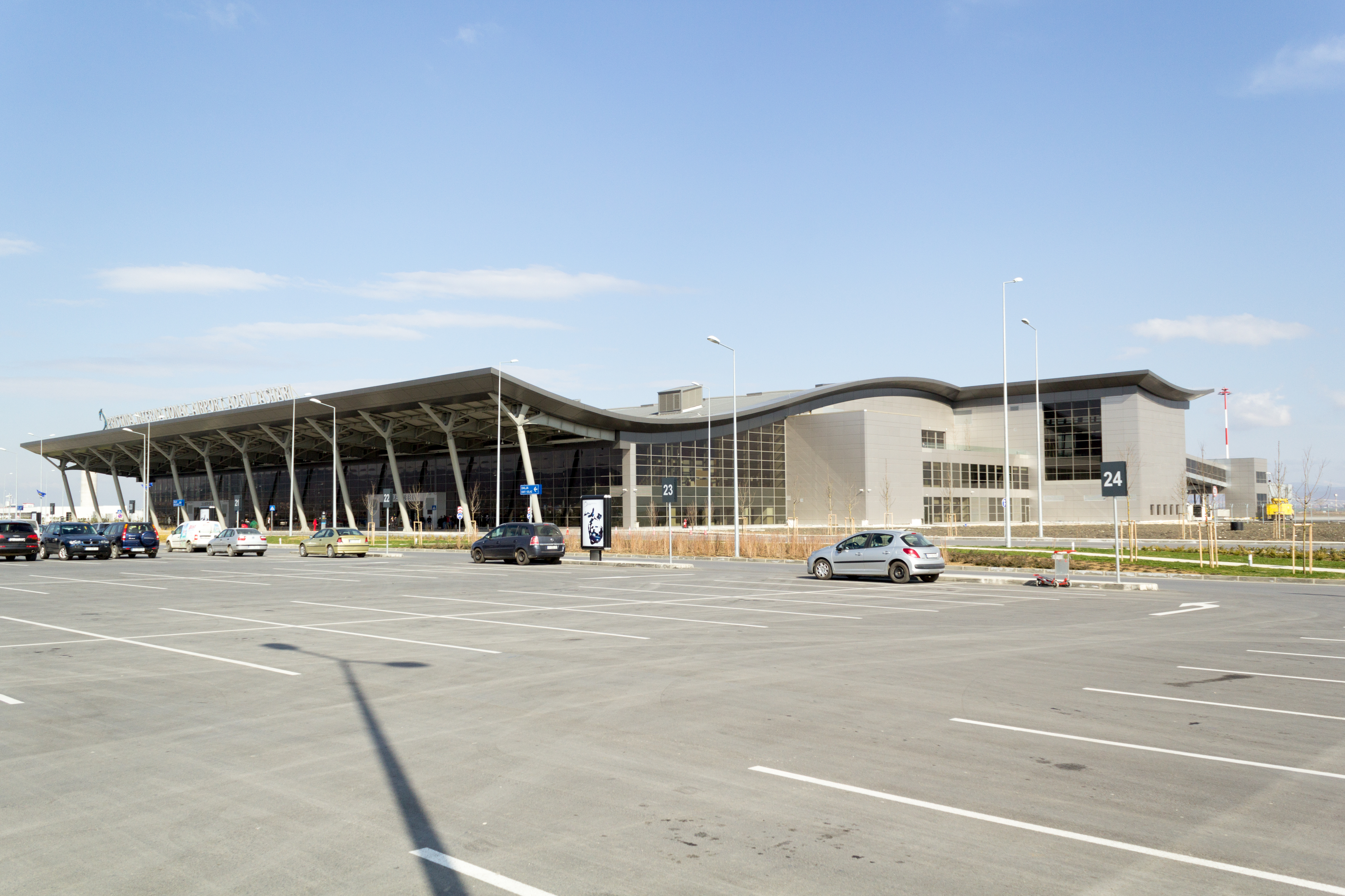 New terminal building at Pristina International Airport (IATA: PRN – ICAO: BKPR).